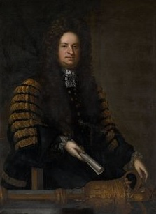 Painting of Robert Rochfort (1652-1727) as Speaker of the Irish House of Commons by an unknown artist.